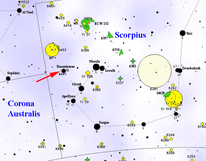 Map of NGC 6441